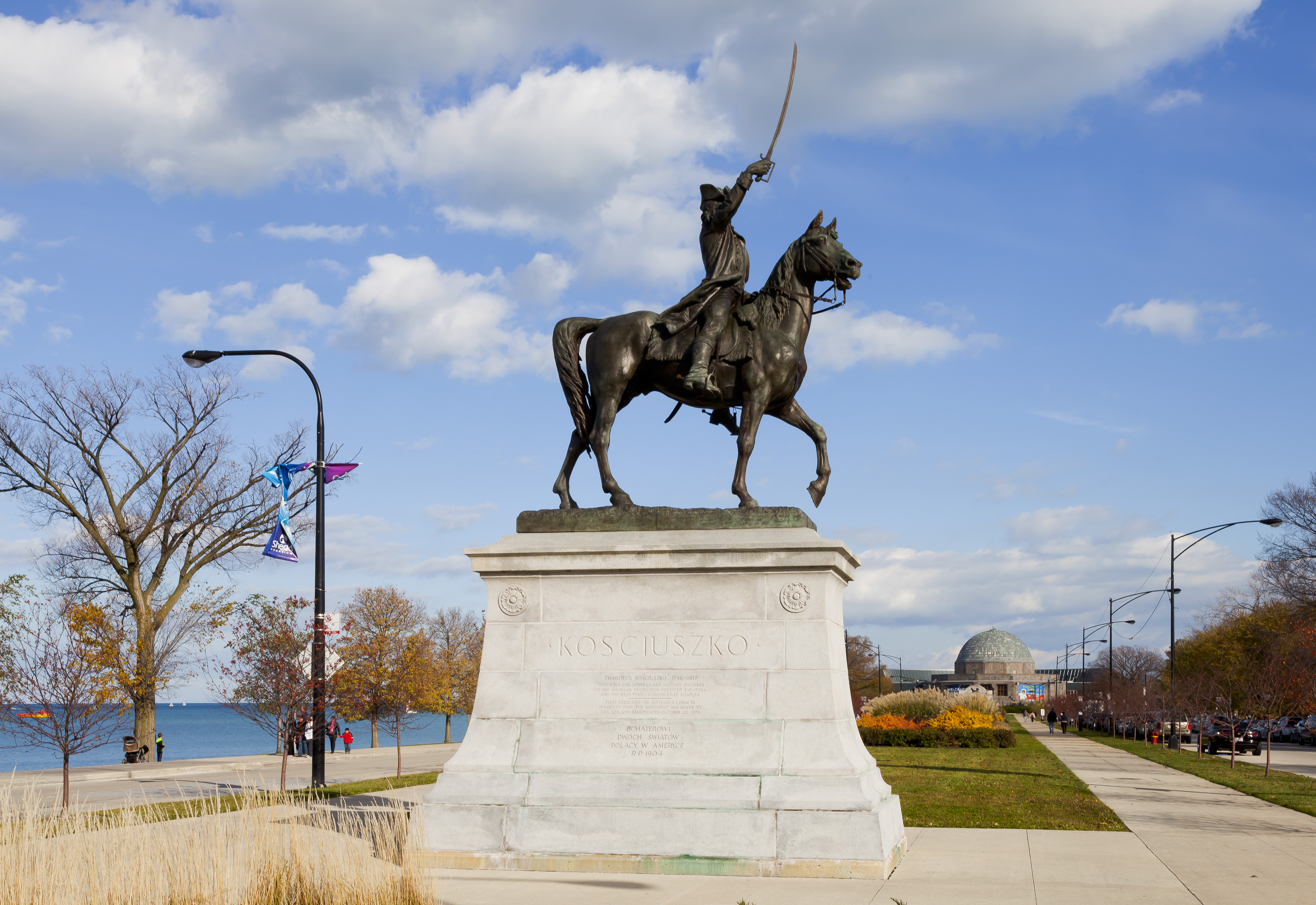 Tadeusz Kosciuszko Staue, Chicago, Illinois, USA